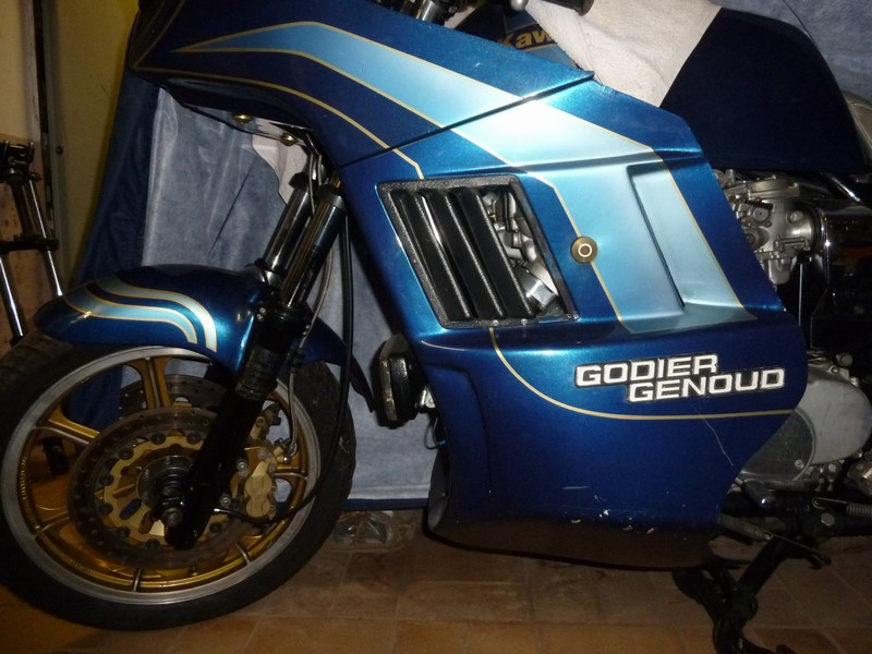 Godier Genoud logo (on a Z1300), side-view